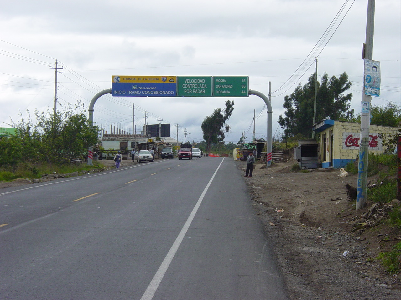 Panamericana highway near Ambato, Ecuador